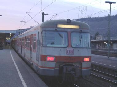 Stuttgart's suburban rail train type 420 on line S1